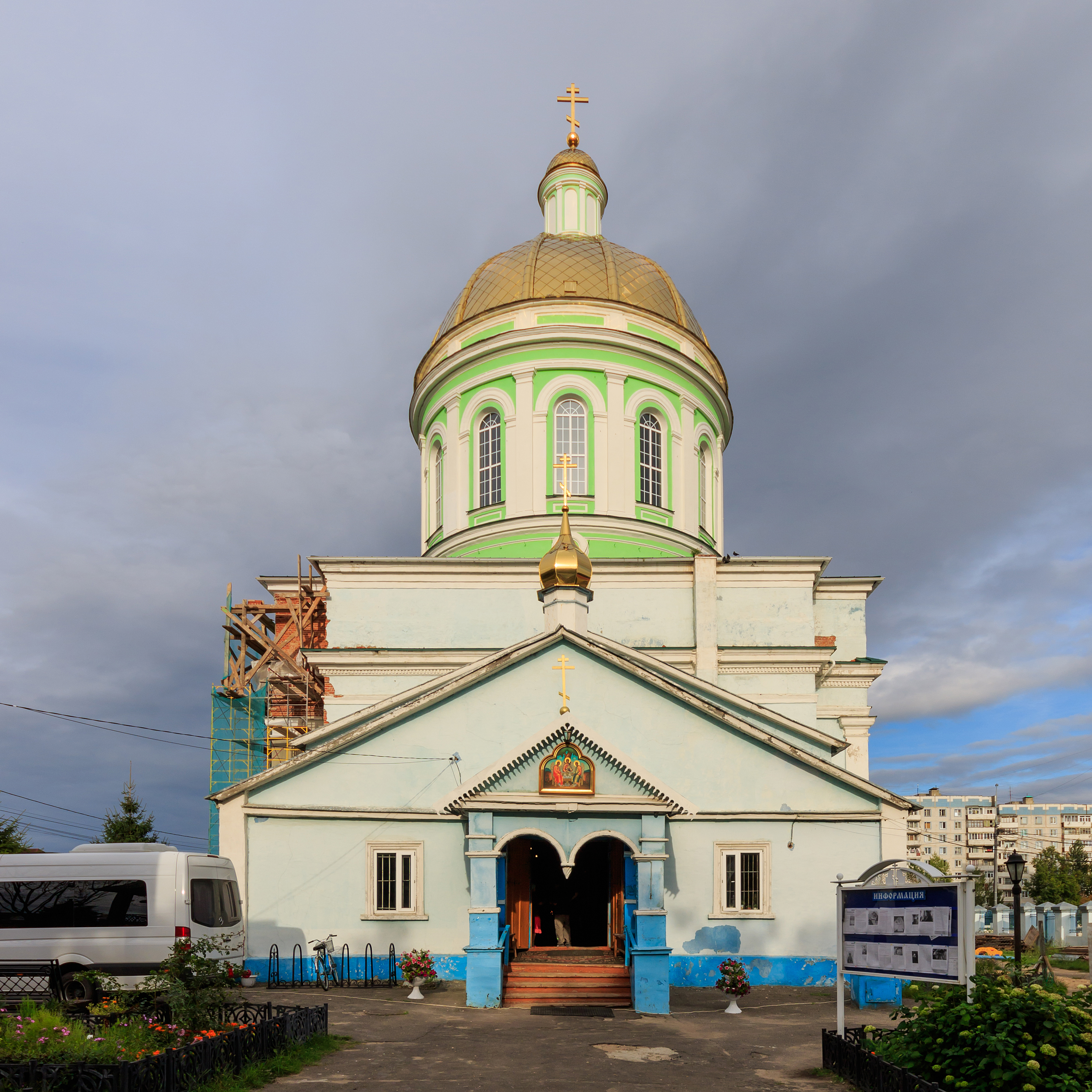 Holy Trinity Church in Ozyory, Moscow Oblast, Russia